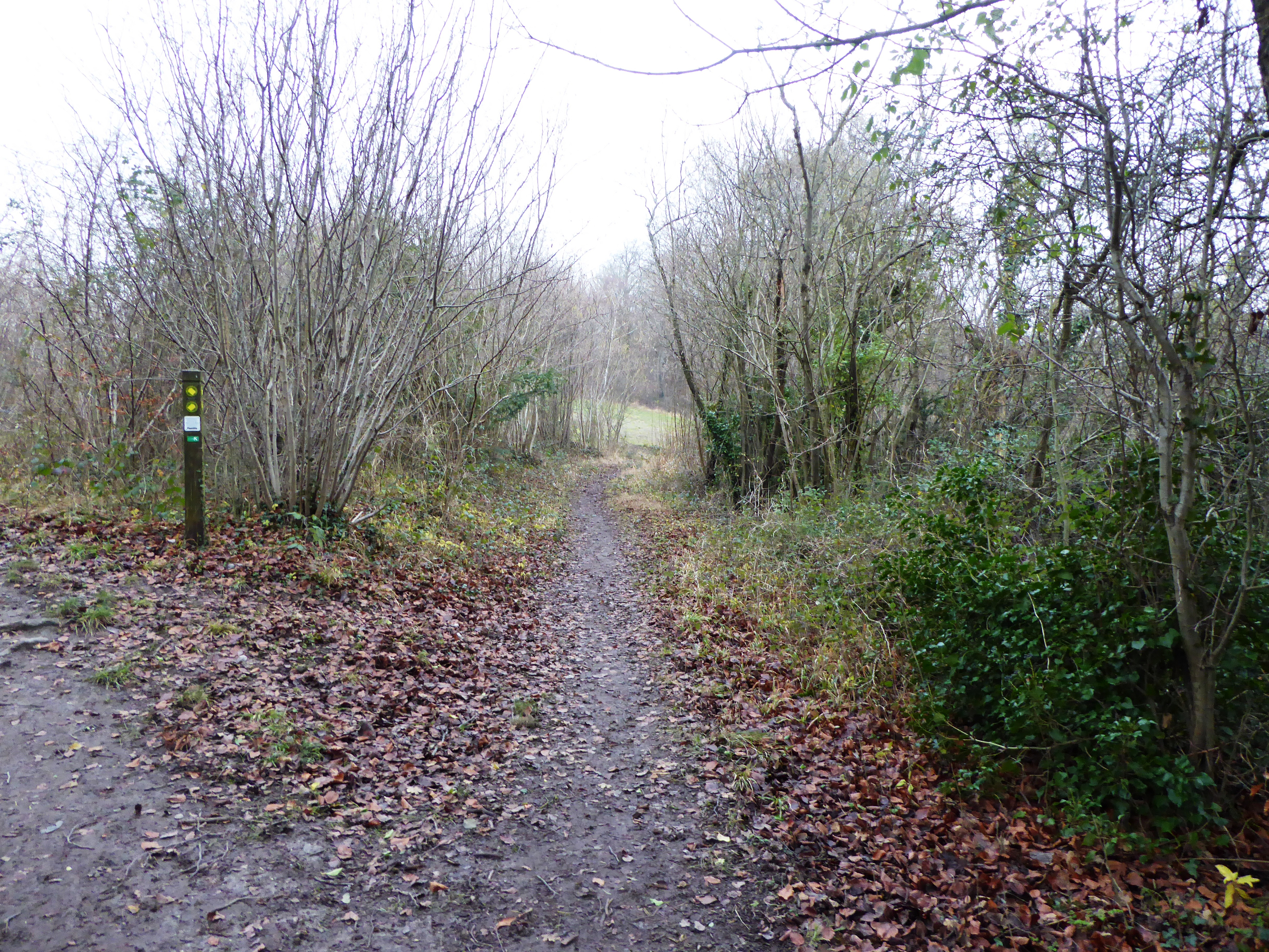 Mill Hill is part of Cobham Woods Site of Special Scientific Interest, north of Cuxton, on the eastern outskirts of Rochester in Kent.